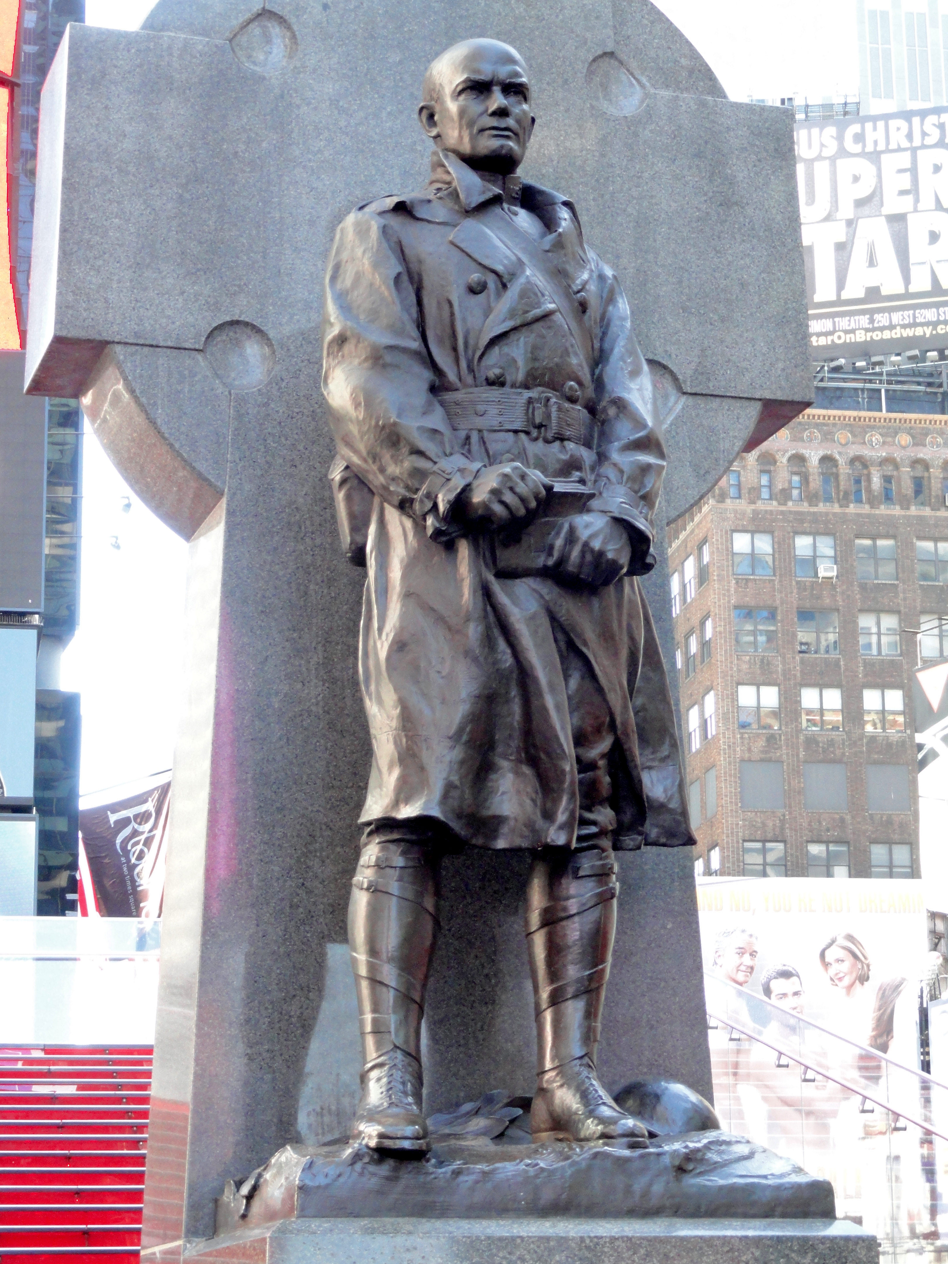 Statue of Father Francis Patrick Duffy (1871-1932) by Charles Keck (1875-1951), Times Square, New York City, New York, USA. Created 1935. Now in the public domain because published in the United States between 1923 and 1963, with its copyright not renewed.